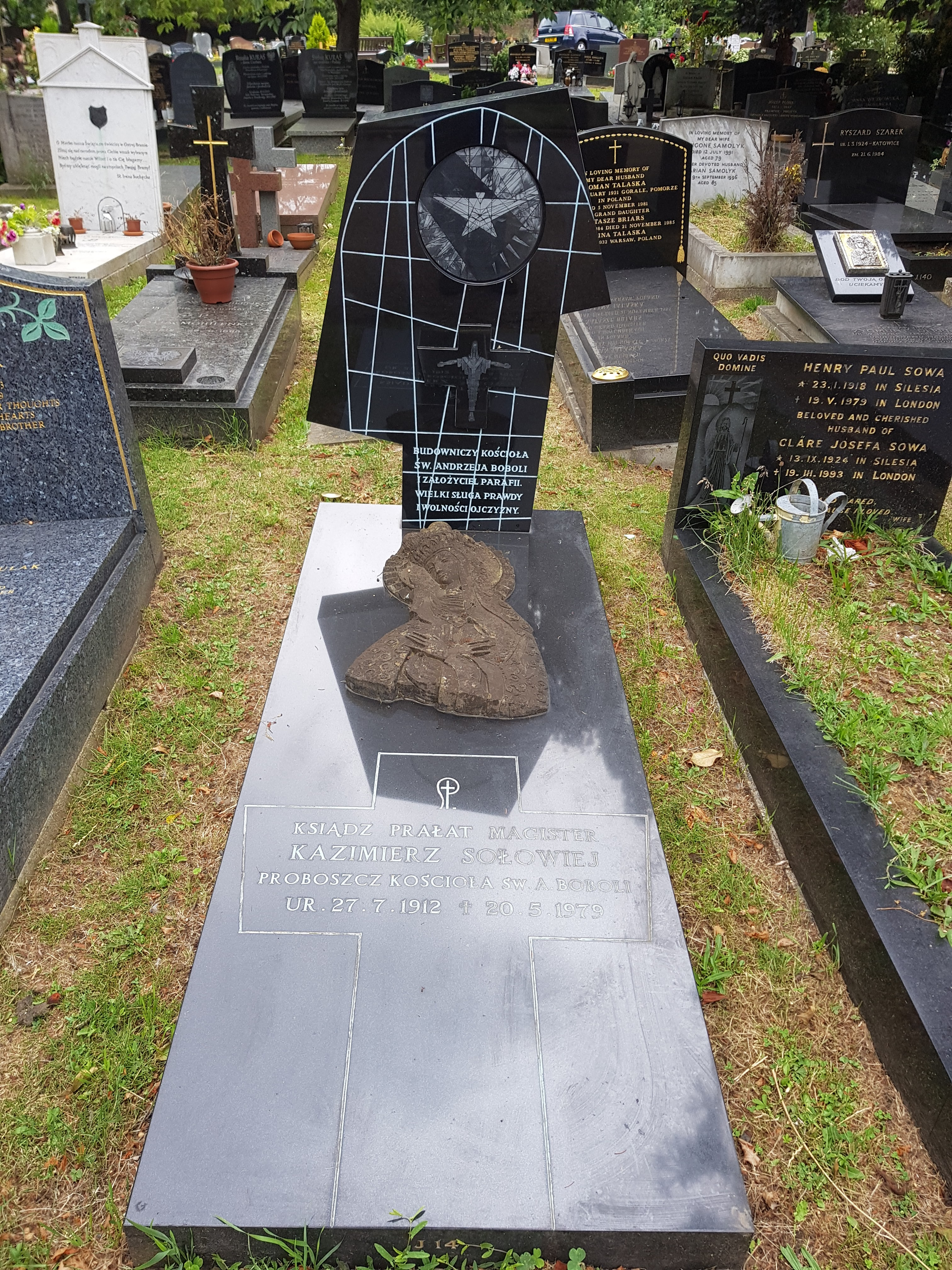 Gunnersbury Cemetery, London